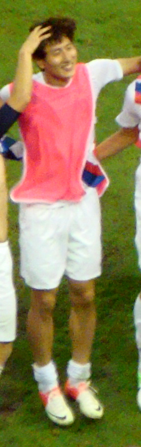 04/08/12 Great Britain v South Korea, Olympic Football, Millennium Stadium, Cardiff, Wales